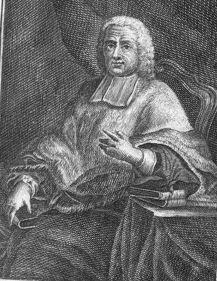 Image of Charles Rollin, printed in his book, italian edition (tomus I, Migliaccio, Naples 1787) of Ancient History of Egyptians and other old people.